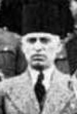 Cropped image of Jamil Ibrahim Pasha, a Syrian nationalist politician during the French Mandate period